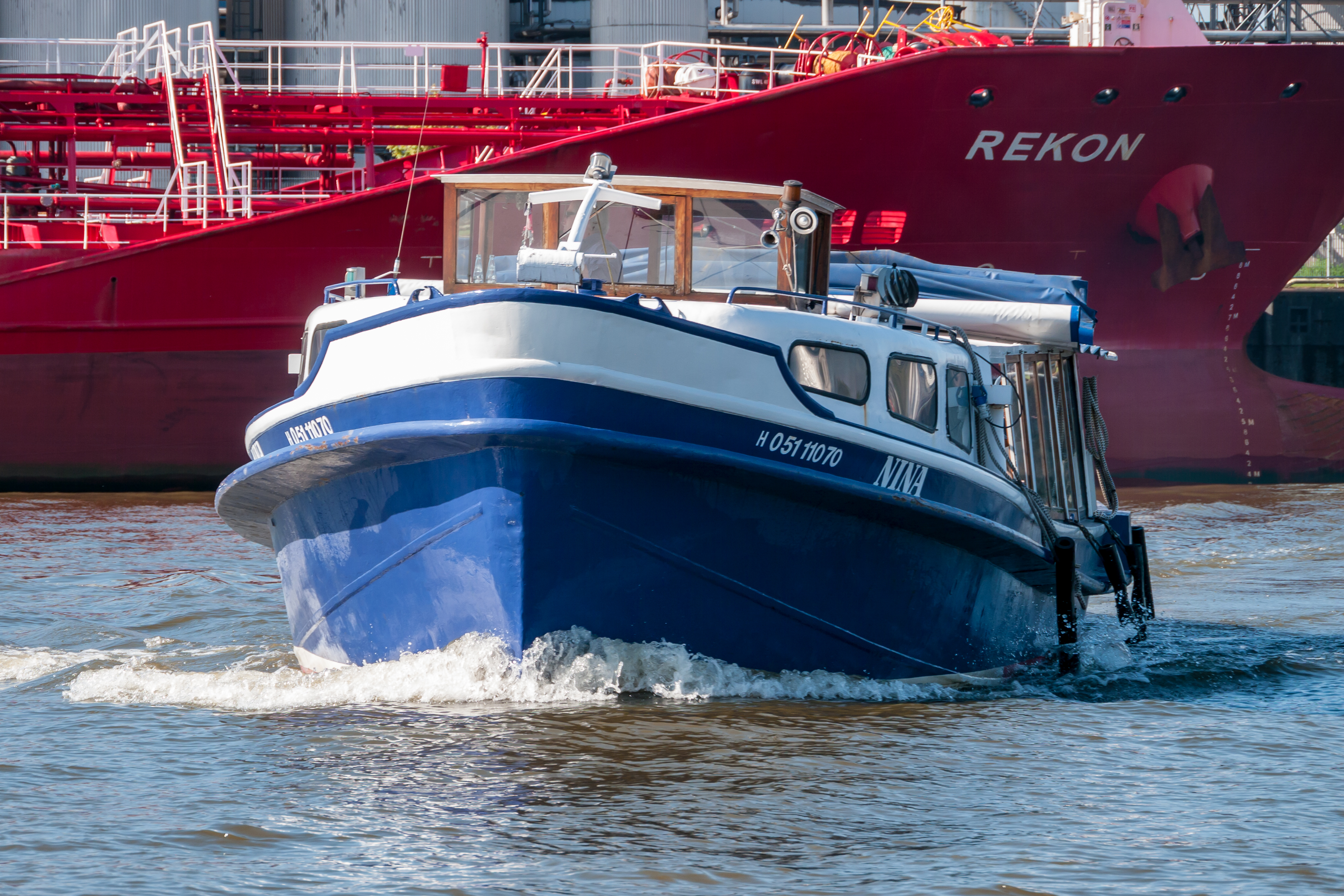 Wikipedia Ahoi in Hamburg 2019